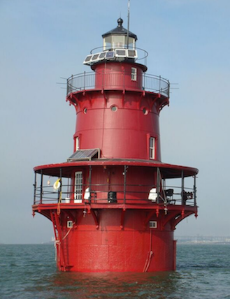 Newport News Middle Ground Lighthouse